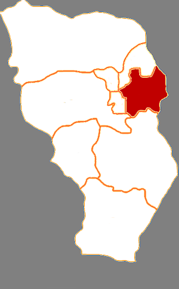 Locator map of Saihan District in Hohhot City, Inner Mongolia, China